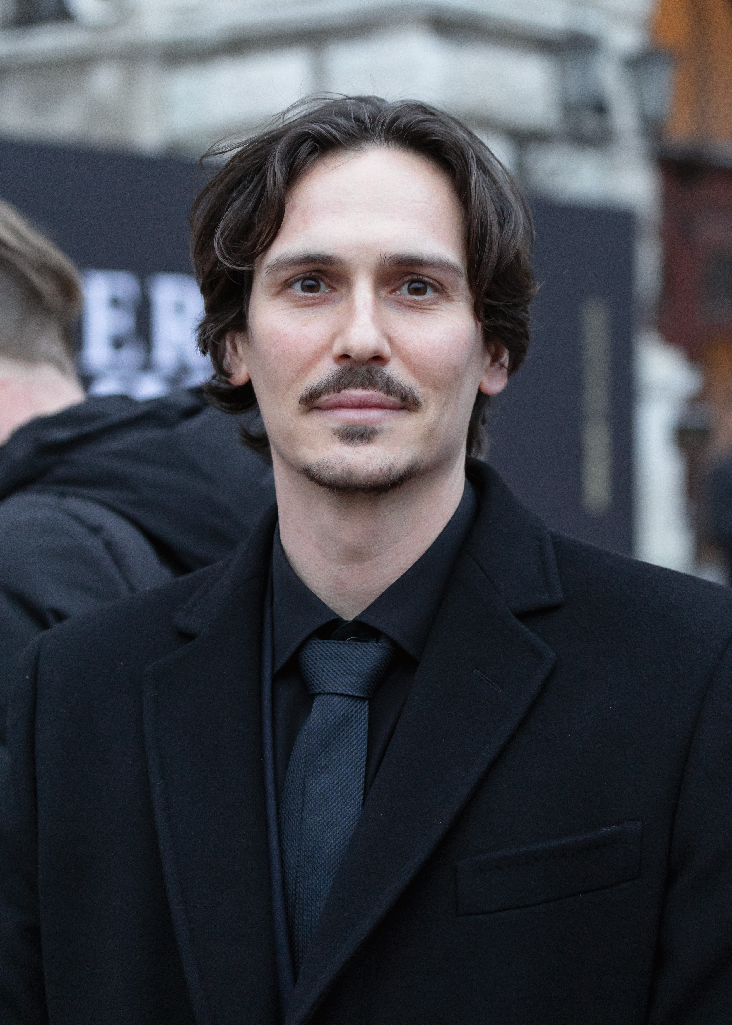 Christopher Schärf on the red carpet of the Romy TV awards 2019 at Hofburg Palace in Vienna, Austria.